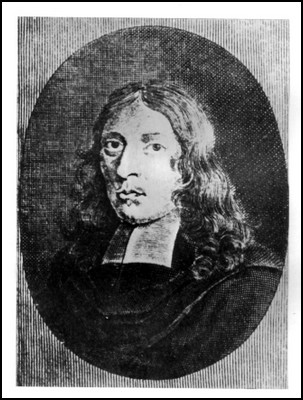 Richard Lower (1631–17 January 1691)